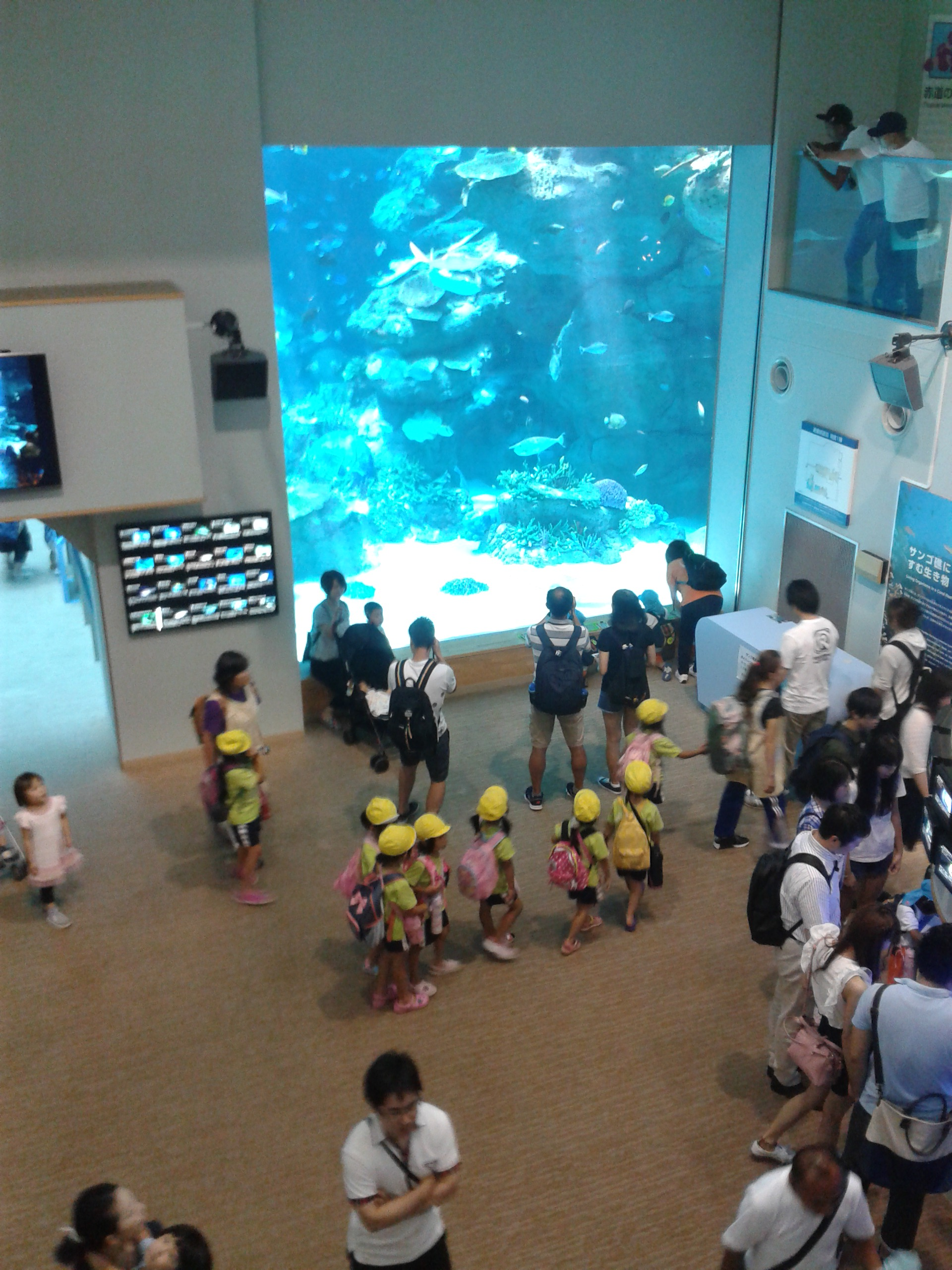 Room in Port of Nagoya Public Aquarium